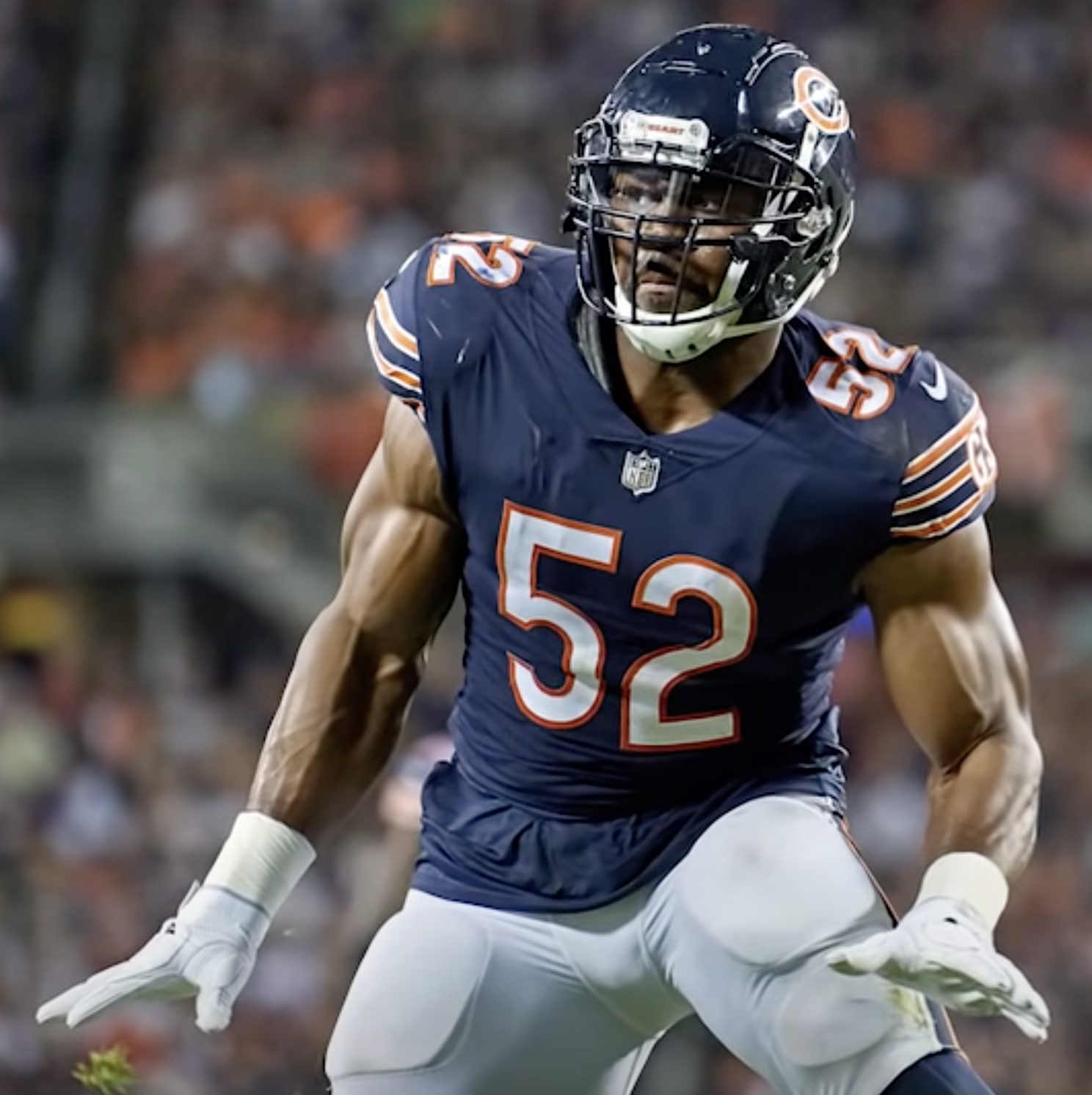 Khalil Mack in 2018